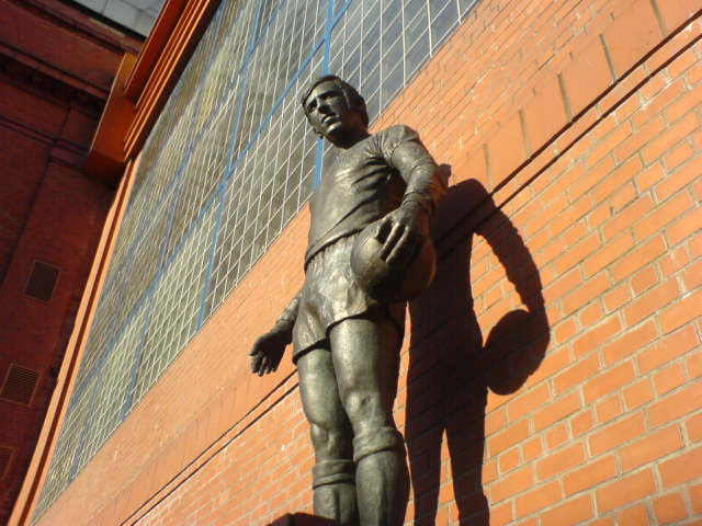 Statue of John Greig at Ibrox Stadium, memorial to the Ibrox Disaster